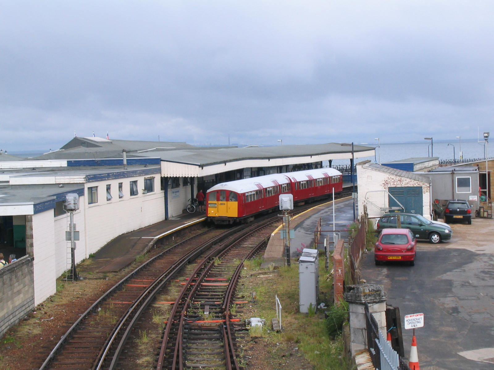 An Island Line train on the Isle of Wight waiting at Ryde Esplanade Station